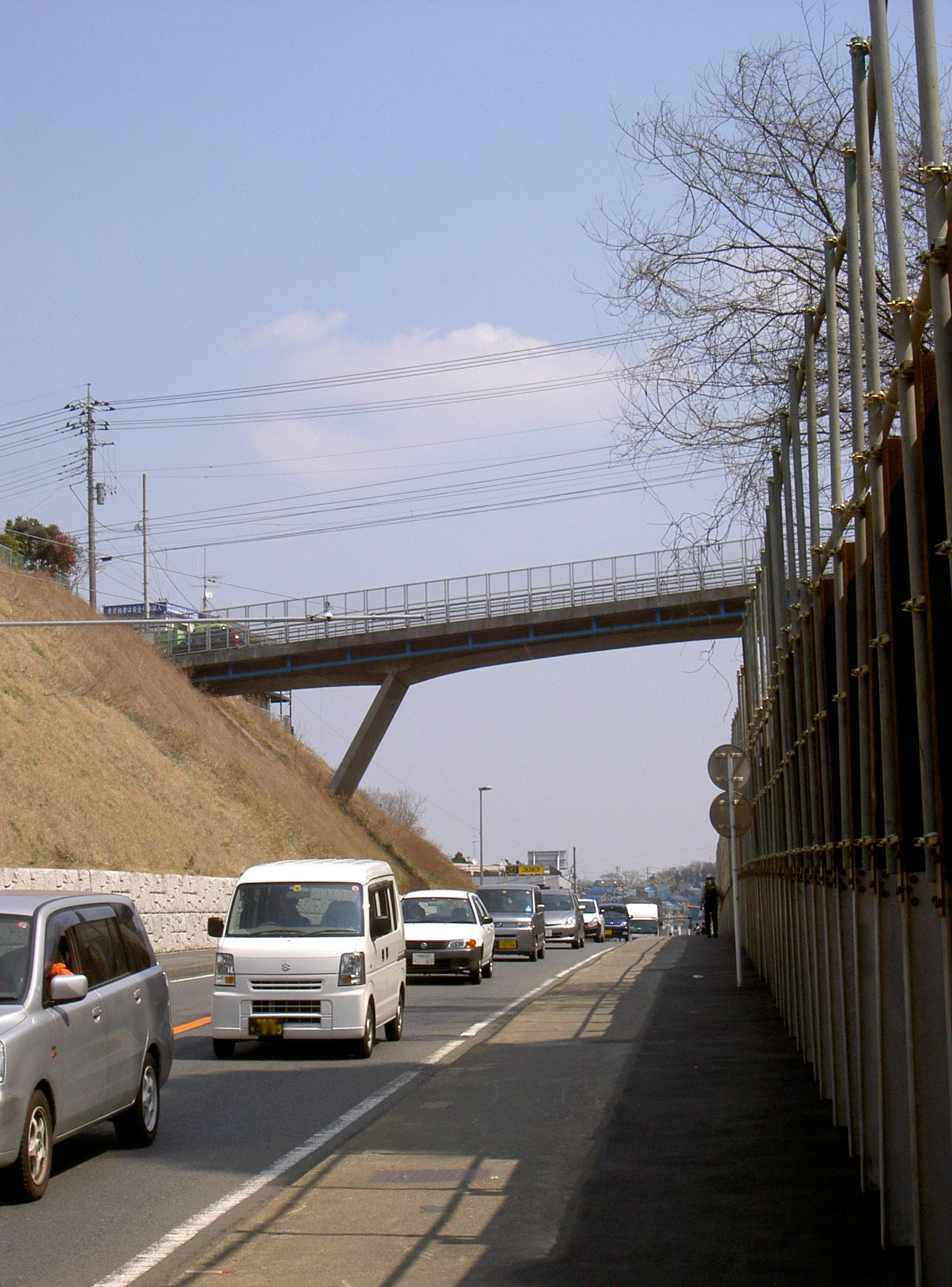 Kanagawa prefectural road route 406 crossing over route 40 ja: 神奈川県道40号横浜厚木線と神奈川県道406号吉岡海老名線の立体交差